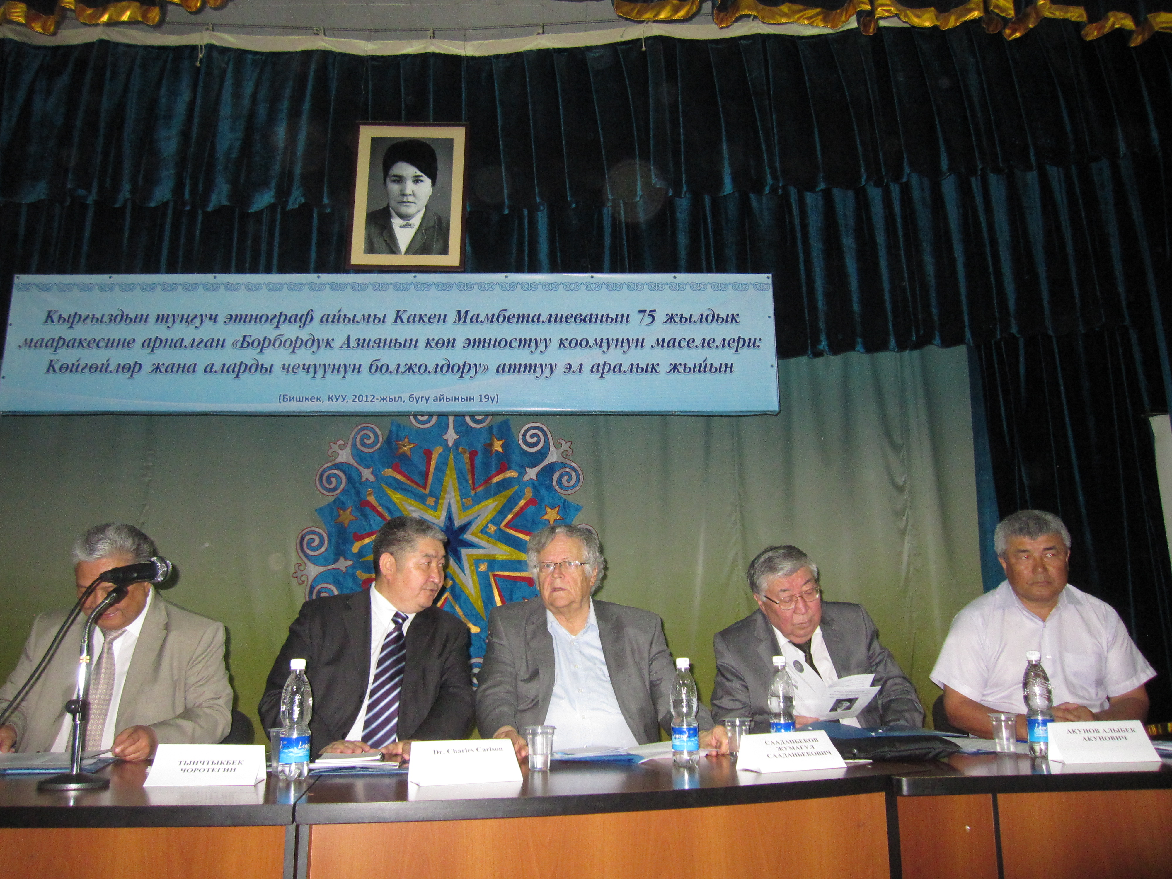 An international conference devoted to the 75th anniversary of Kaken Mambetalieva, the first female Kyrgyz ethnographer. Kyrgyz National University, Bishkek, Kyrgyzstan. 19.5.12.